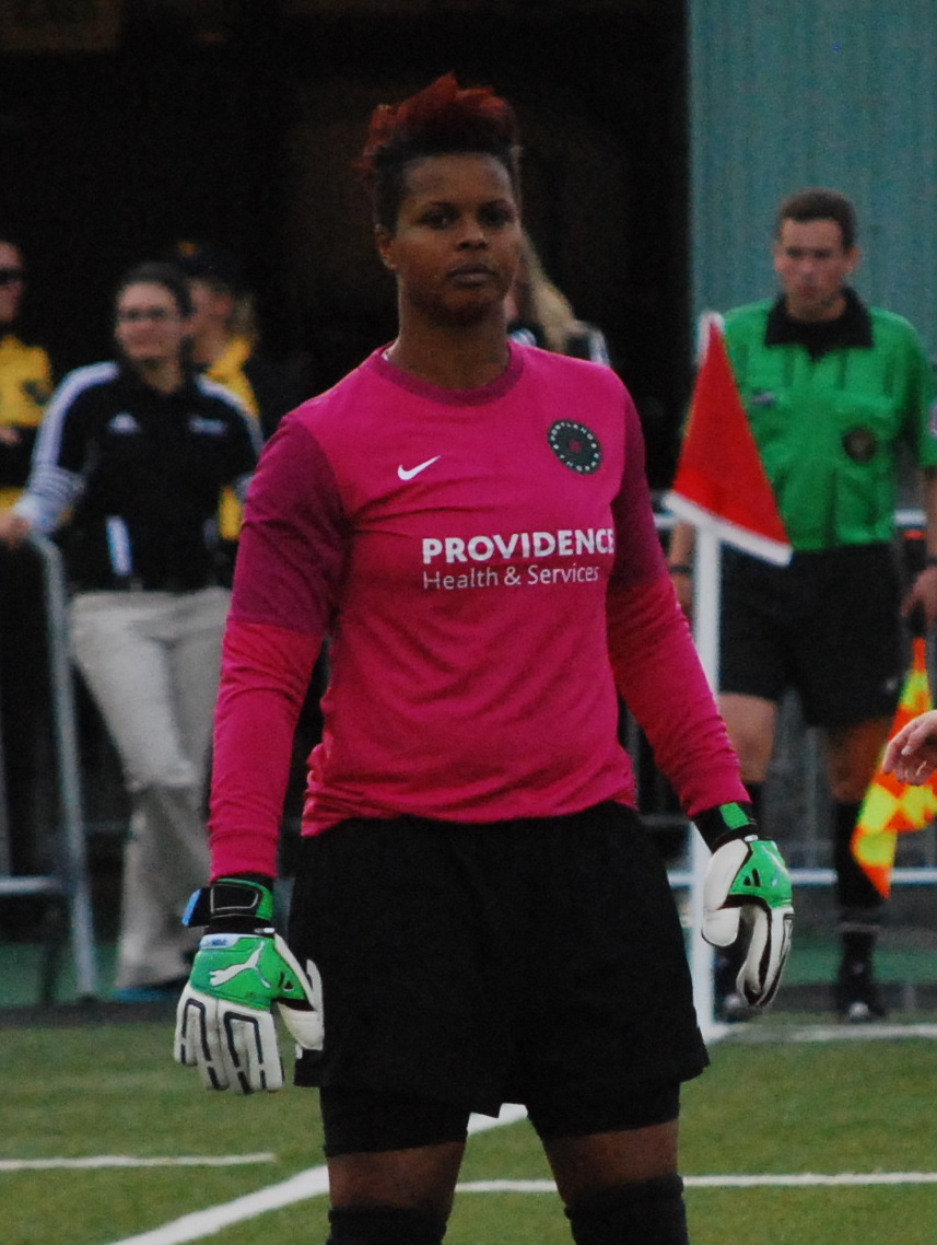 Karina LeBlanc during Seattle Reign FC vs Portland Thorns match at Starfire Stadium in Tukwila, Washington on May 25, 2013